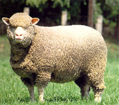 its a sheep